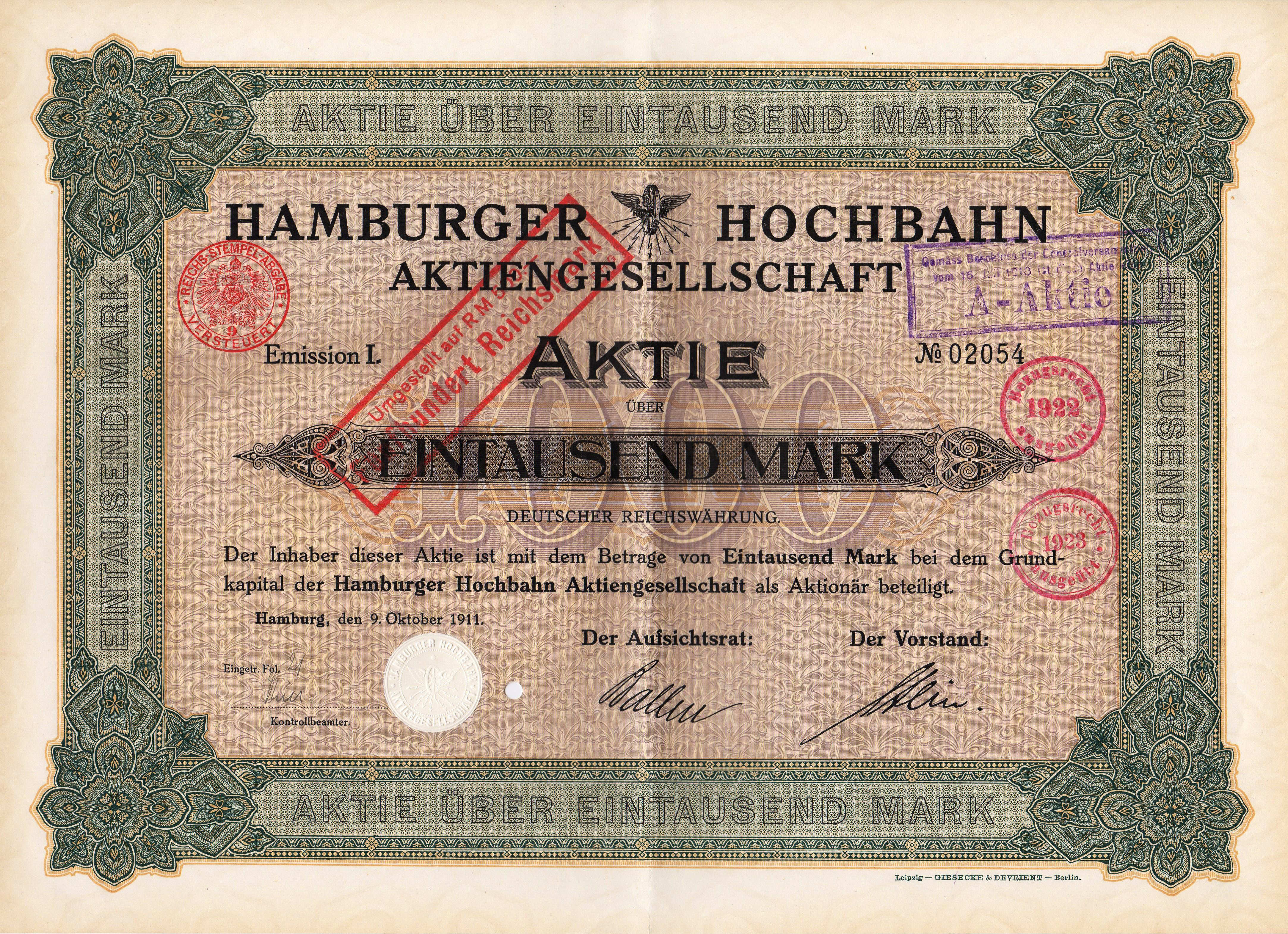 Share of the Hamburger Hochbahn, issued 9. October 1911